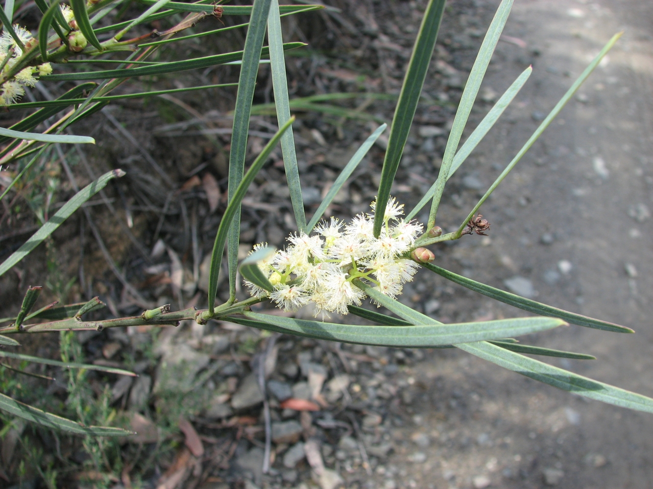 Acacia suaveolens, Anglesea Heath, Victoria, Australia